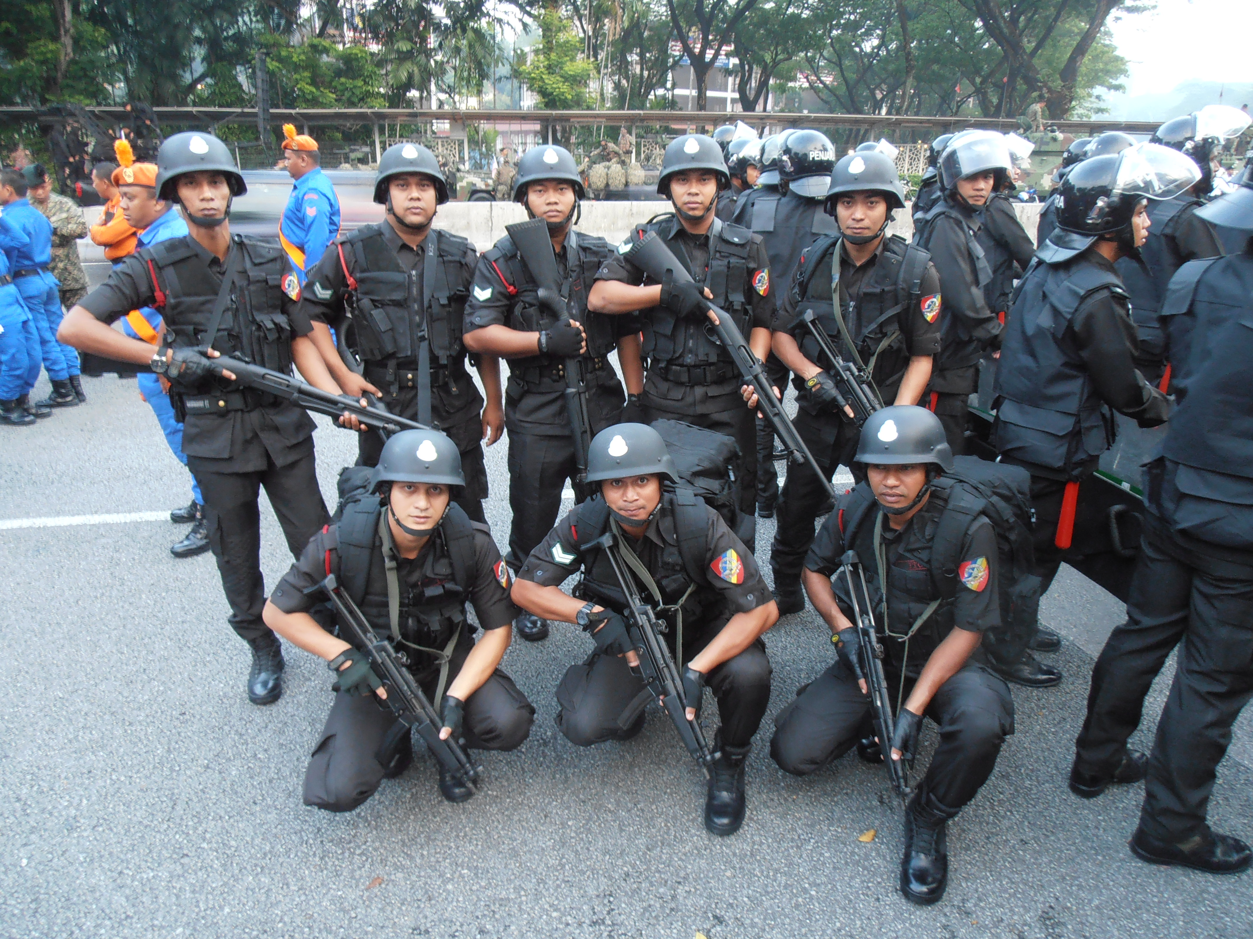 Rapid Actions Troop of the Malaysian Prisons Department